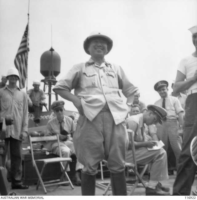 Australian War Memorial Photograph 116922 Caption: Physical description: Black & white Summary: Kuching, Sarawak. 1945-09-11. Colonel T. Suga, Imperial Japanese Army, Commandant of all the Japanese Prisoner of War Camps in Borneo. He committed suicide six days later. Suga committed suicide in the early hours of 16 September, ie five days after this photograph was taken.